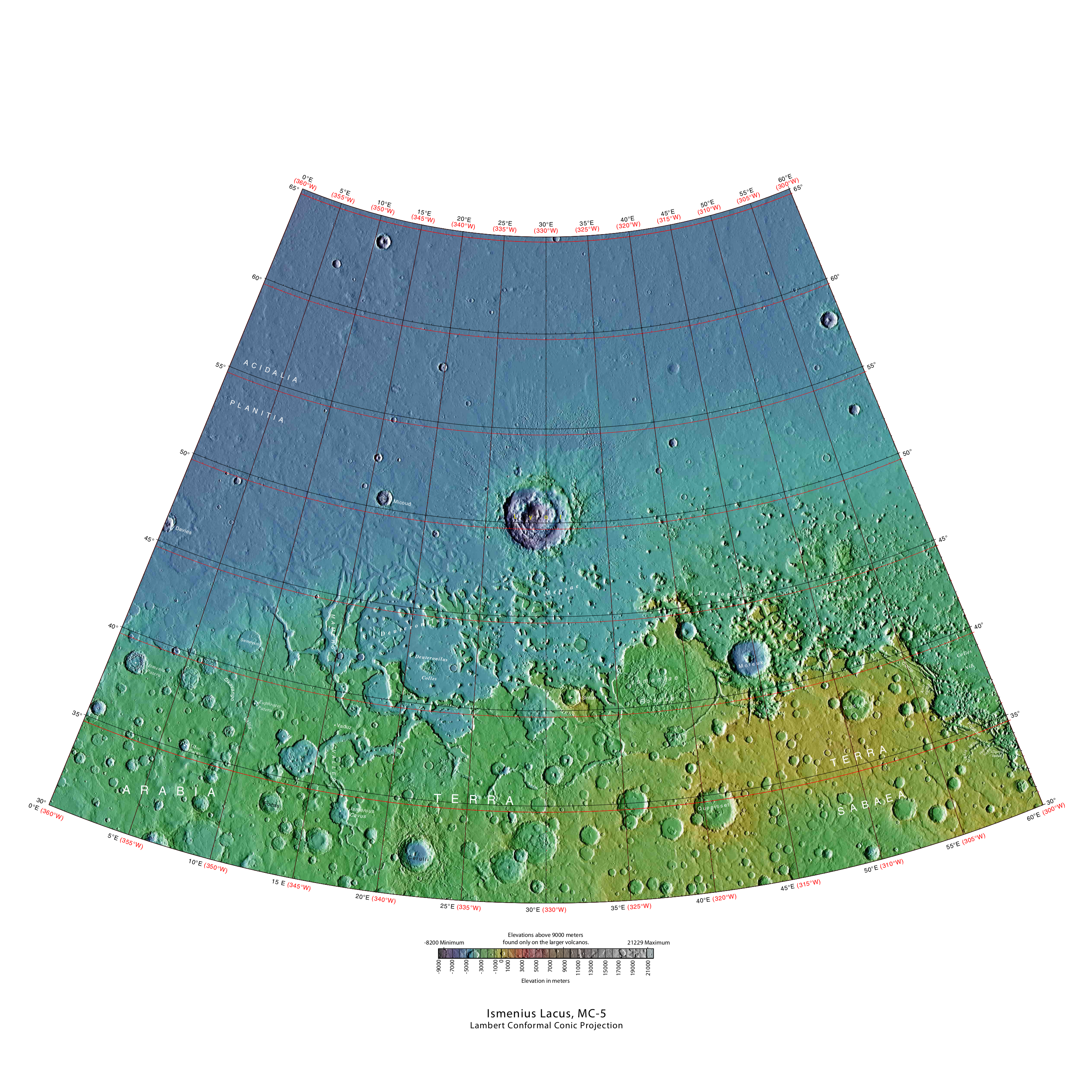 MOLA Topographic Map of Ismenius Lacus Quadrangle (MC-5) on the planet Mars. NOTE: Converted the original PDF file to a PNG File (via GIMP v2.8.4 program) - and uploaded to Wikimedia Commons.